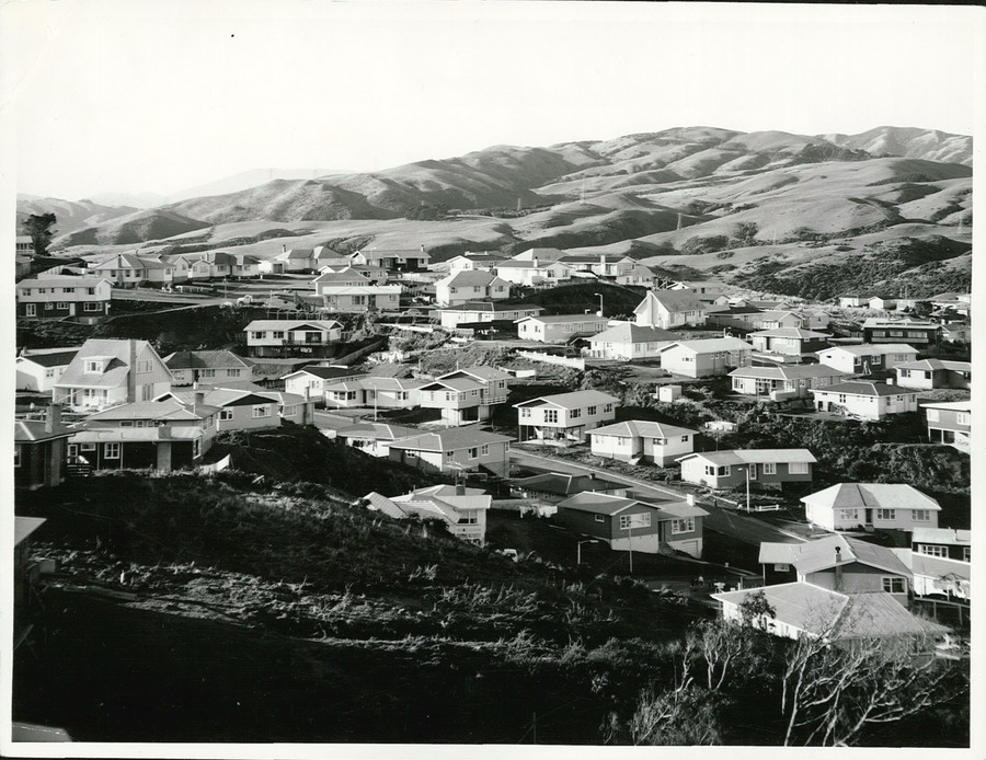 Images from NZ Archives Flickr albums Images uploaded in collaboration between WMUK and the University of Edinburgh